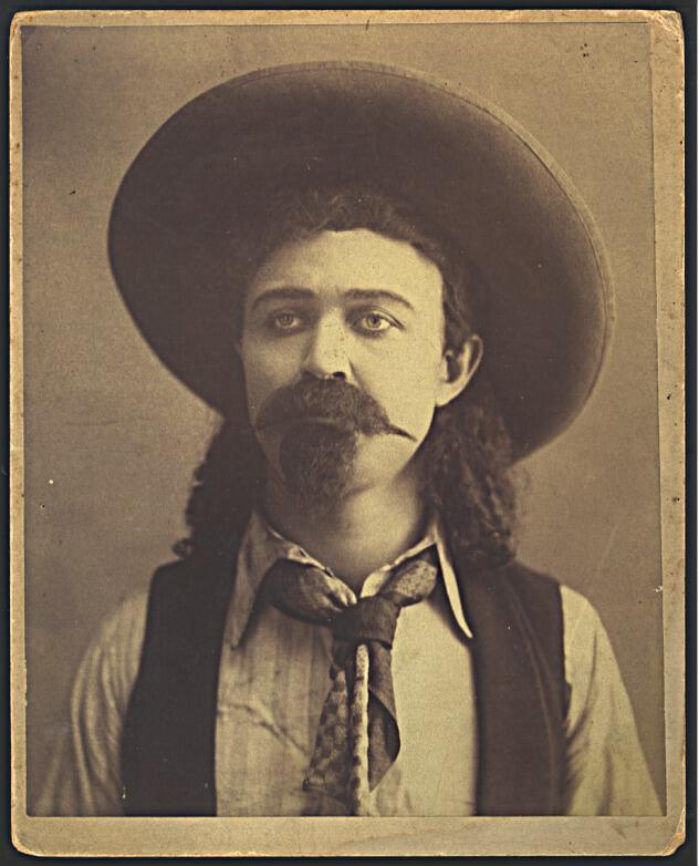 Hobart Bosworth (1867-1943), in costume for a stage or folm roll